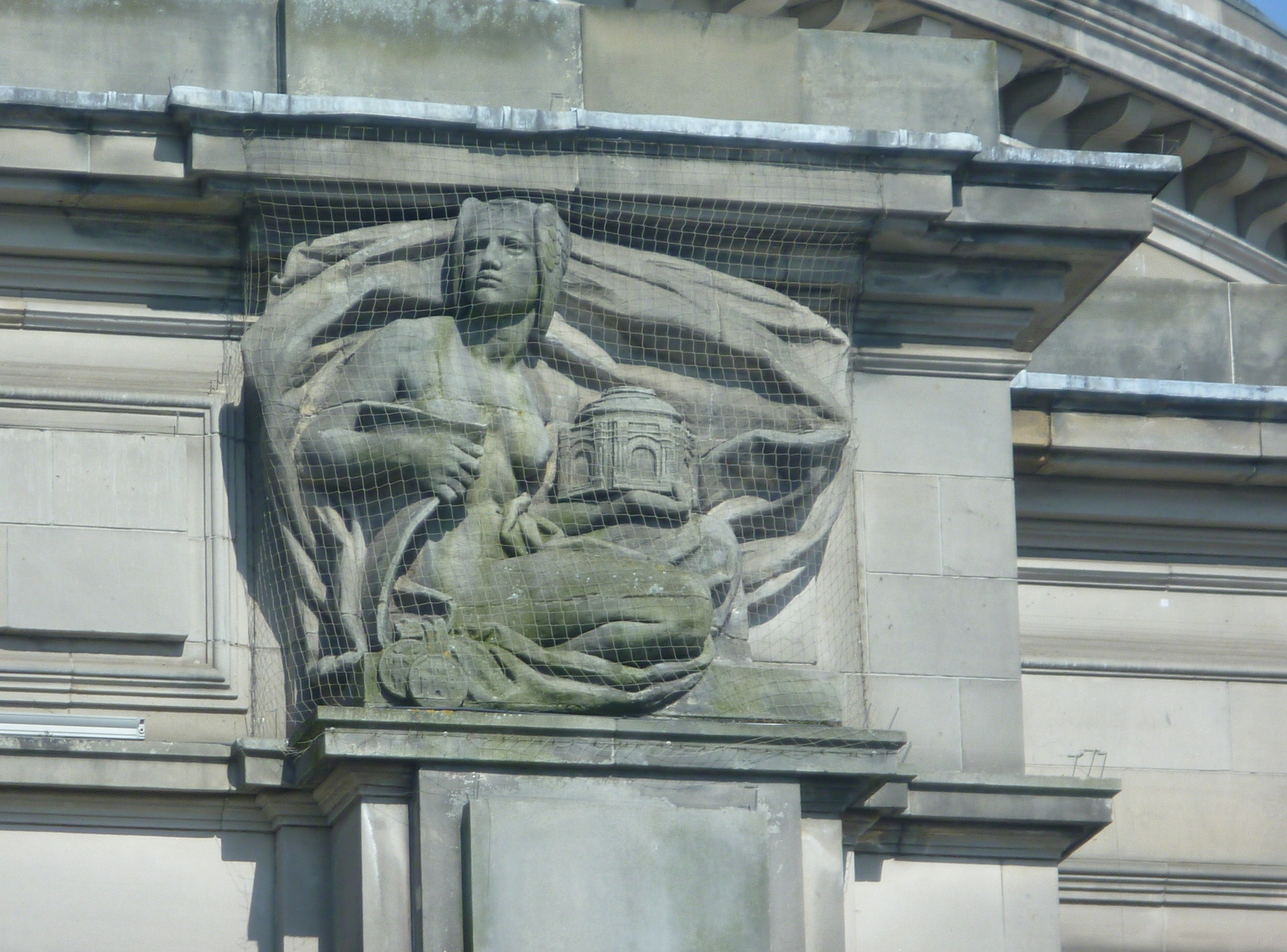 'Municipal Benificence' - one of the sculpted figures on the Usher Hall, Edinburgh